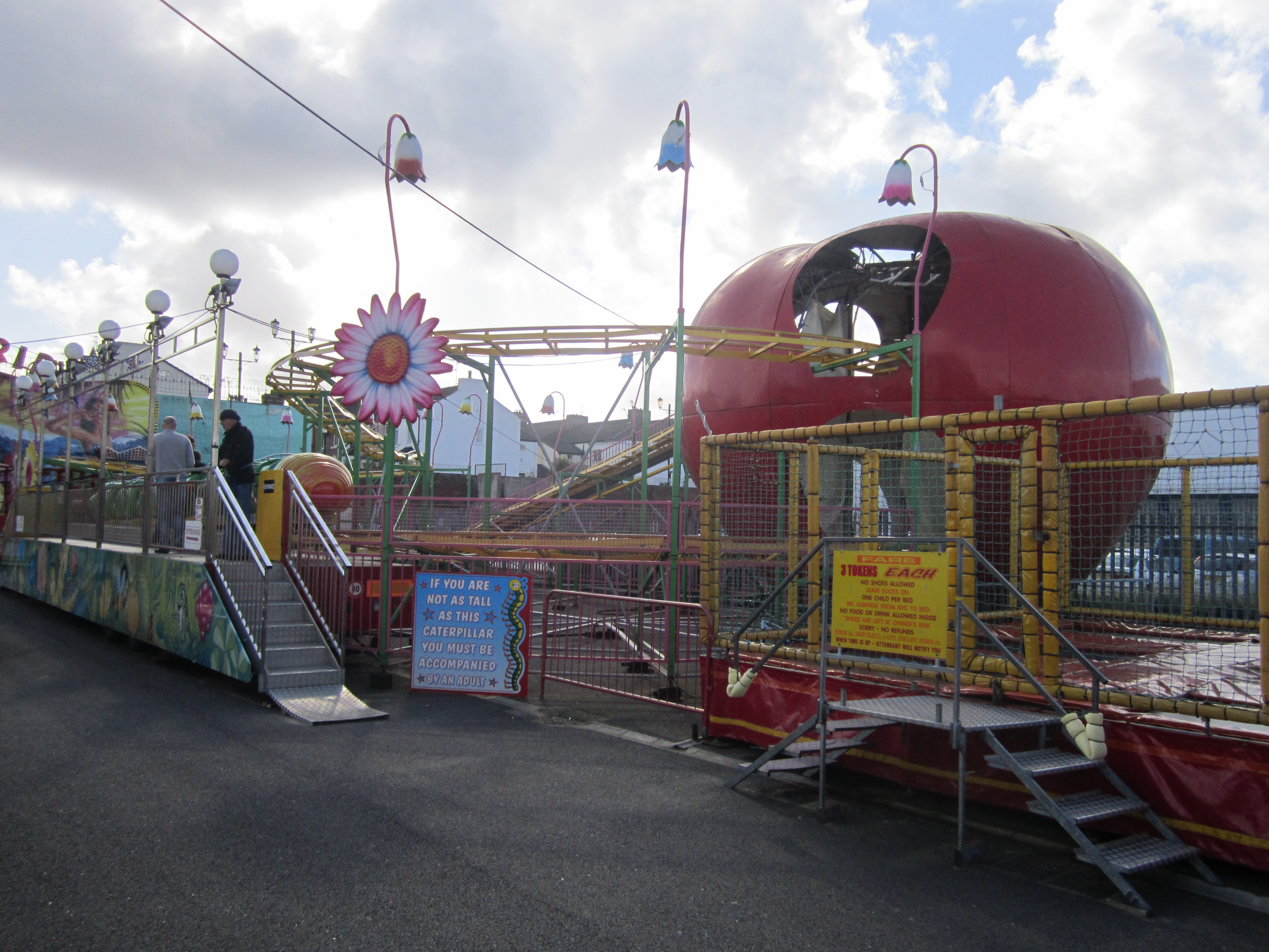 New Brighton Funfair, Merseyside, England.